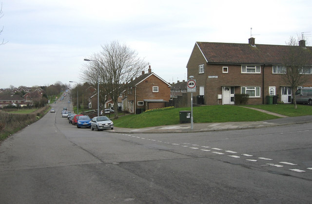 Pentrebane Road, Cardiff. Looking east along Pentrebane Road at the junction with Beechley Road.